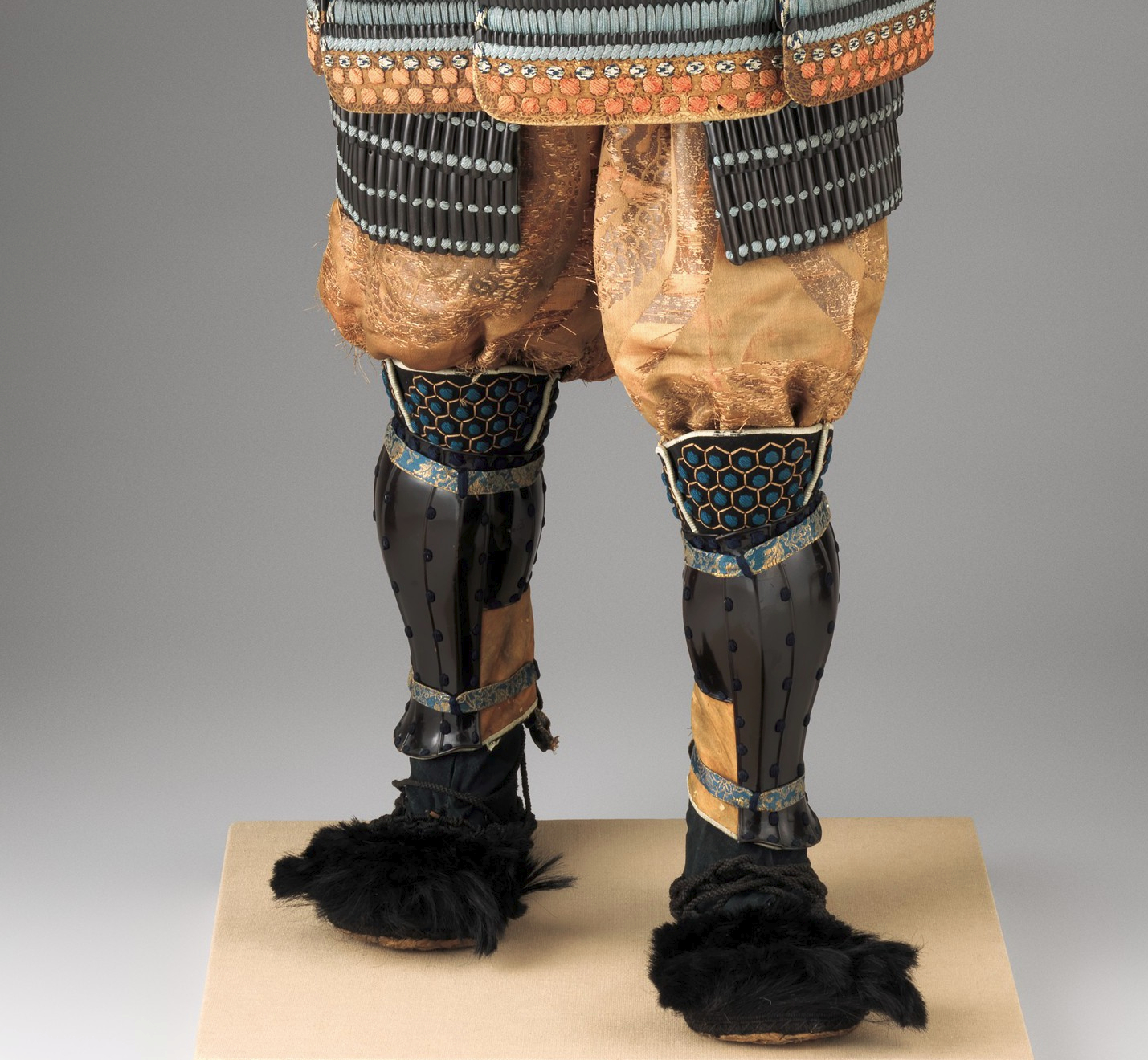 Japanese; Armor (Gusoku); Armor for Man